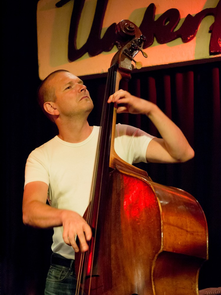 Martin Zenker, Jazz bassist; Picture taken in Jazz Club Unterfahrt, Munich/Bavaria